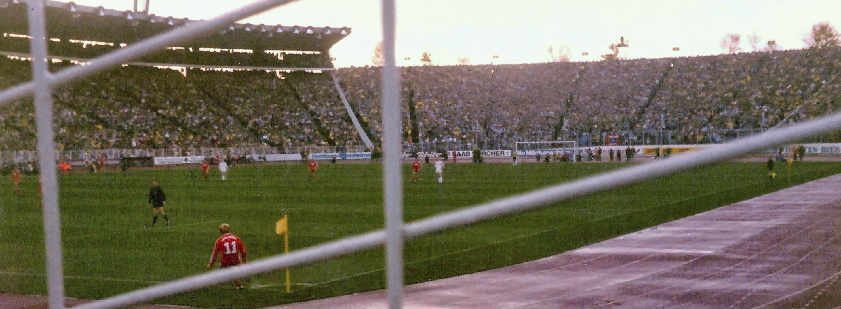 Hamburger SV vs. FC Bayern München at Hamburg Volksparkstadium in 1981 (Result 4:1)